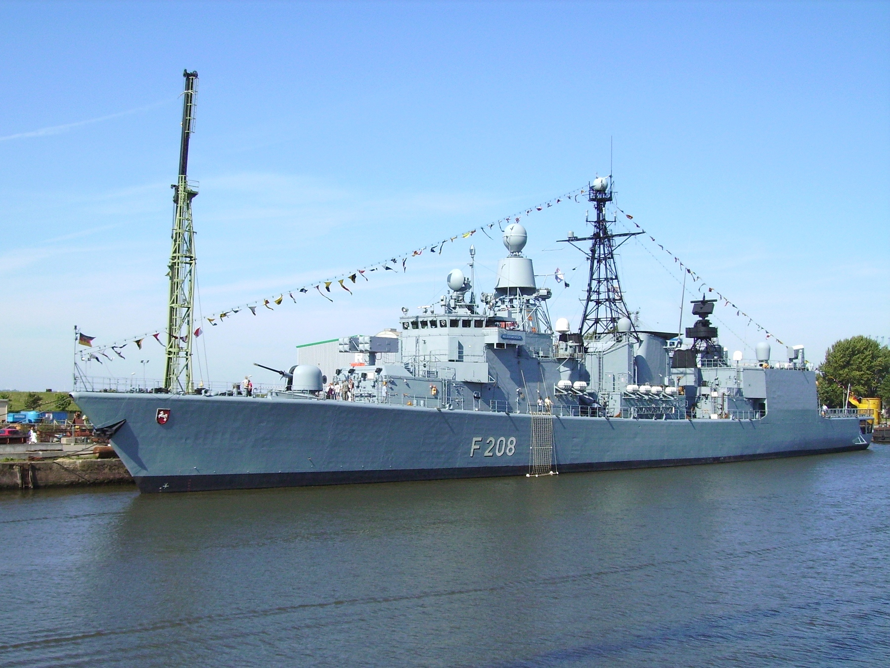 The frigate Niedersachsen F 208 of the German navy in the port of Bremerhaven. The ship belongs to the Bremen class of frigates.